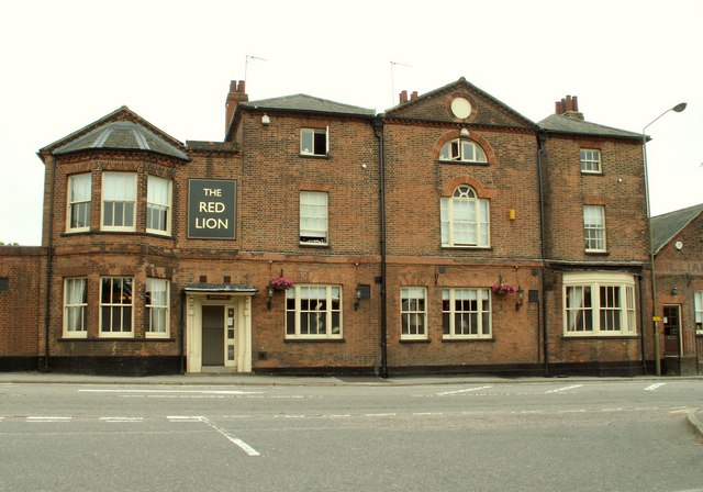 'The Red Lion' public house This large public house stands along the A1000 on the Great North Road in Old Hatfield.